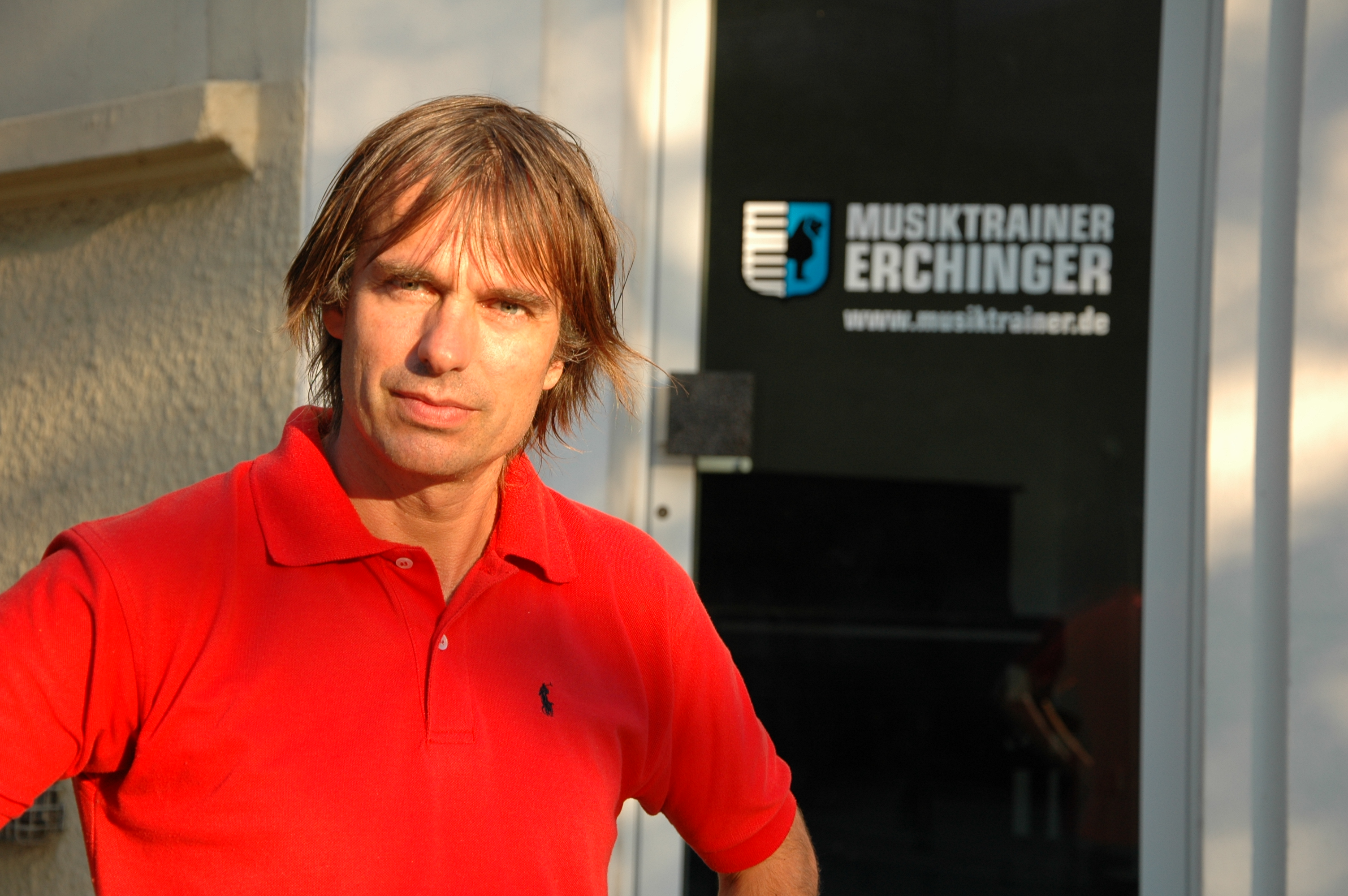 Jan-Heie Erchinger